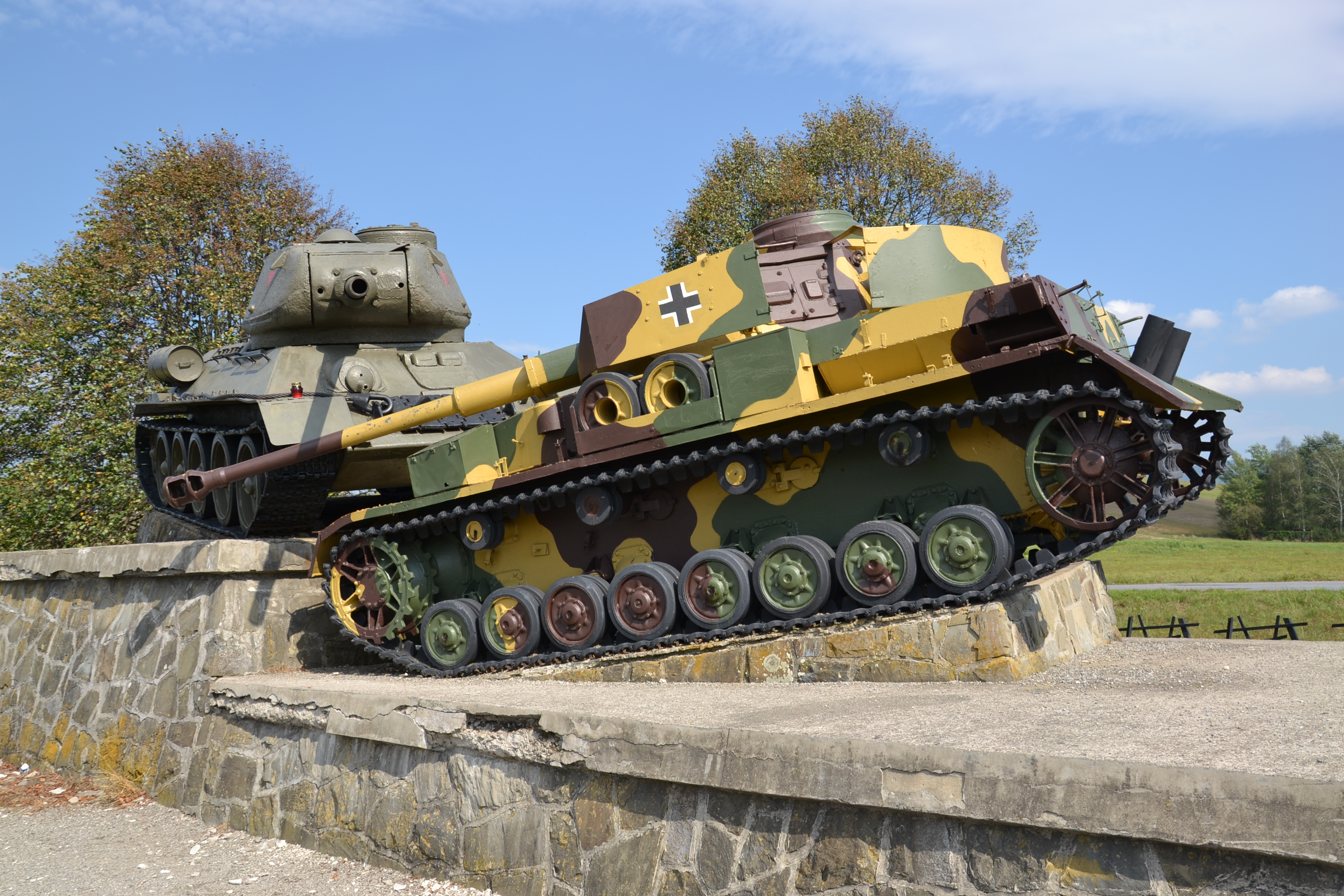 Monument of tank battle of the Battle of the Dukla Pass, Svidník, Slovakia